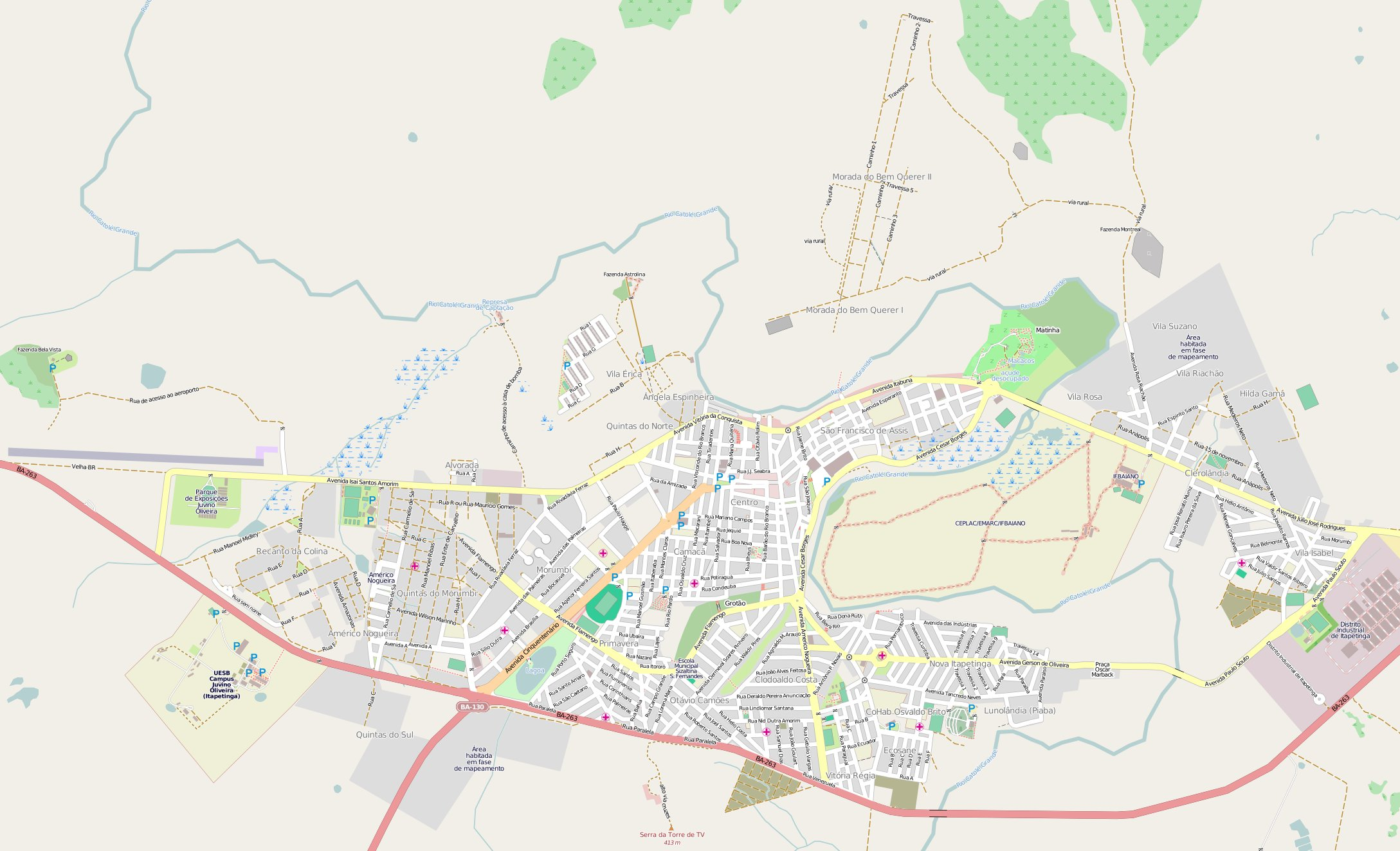 Map of Itapetinga, Bahia, Brazil, from OpenStreetMap